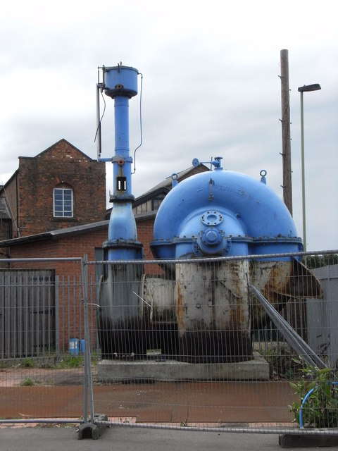 Plinthed pump, Gloucester Docks Gwynnes centrifugal pump and valve. Presumably from the pump house behind. This was originally steam powered and then electric motor drive.